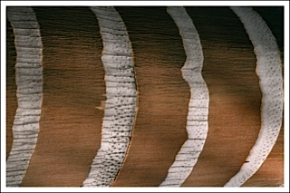 Bark, somewhere in the world, fot. Elżbieta Dzikowska